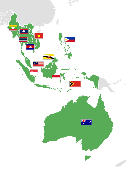 Map showing the members of the ASEAN Football Federation